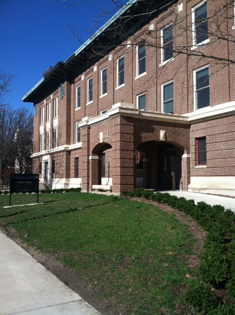 Lincoln Hall Building, facing Wright Steet